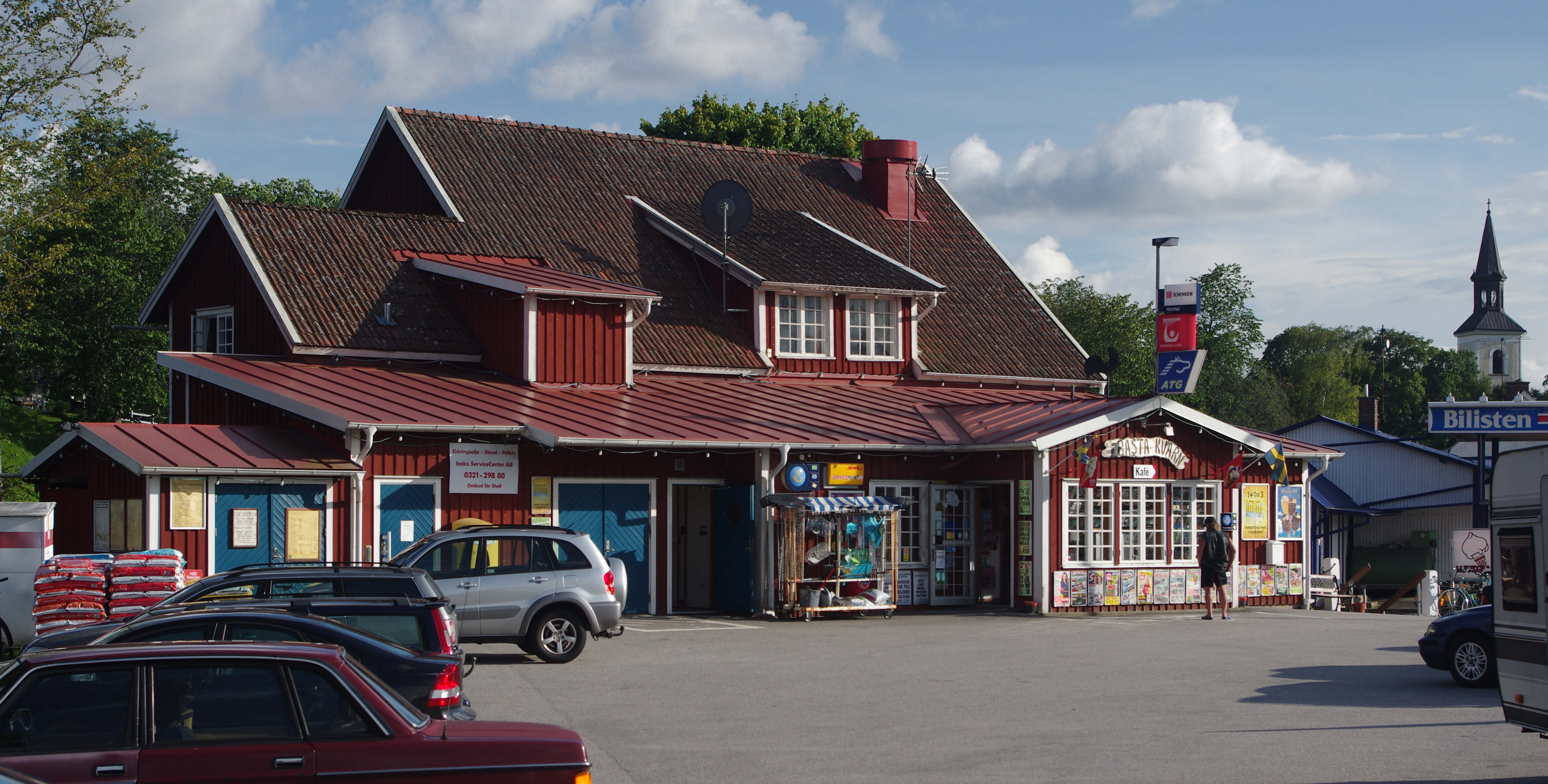 The small town/village Blidsberg in Västergötland, Sweden